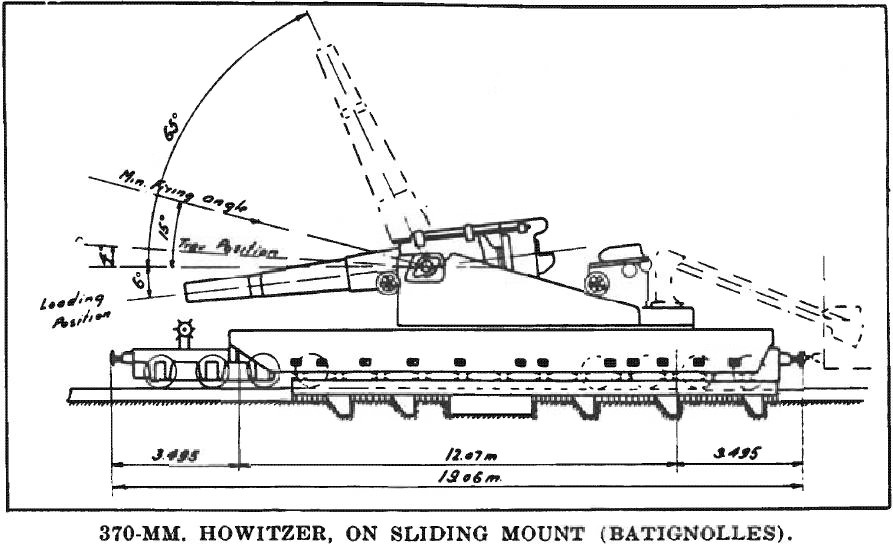 Left elevation diagram showing loading and maiximum elevation angles of French 370-mm howitzer on Batignolles sliding railway mounting.